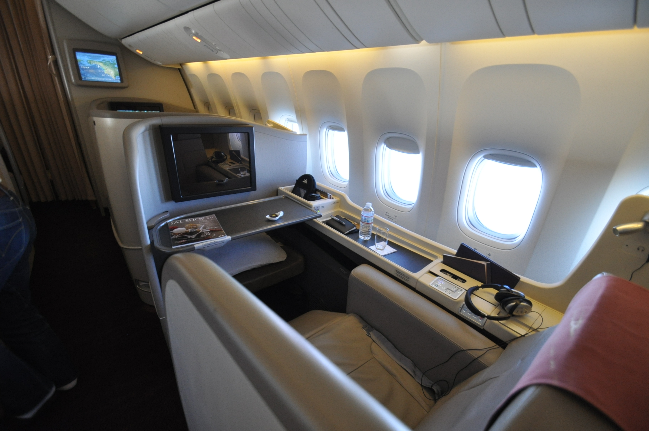 Japan Airlines international flight first-class seat｢SUITE｣.Equipped with Boeing 777-300ER